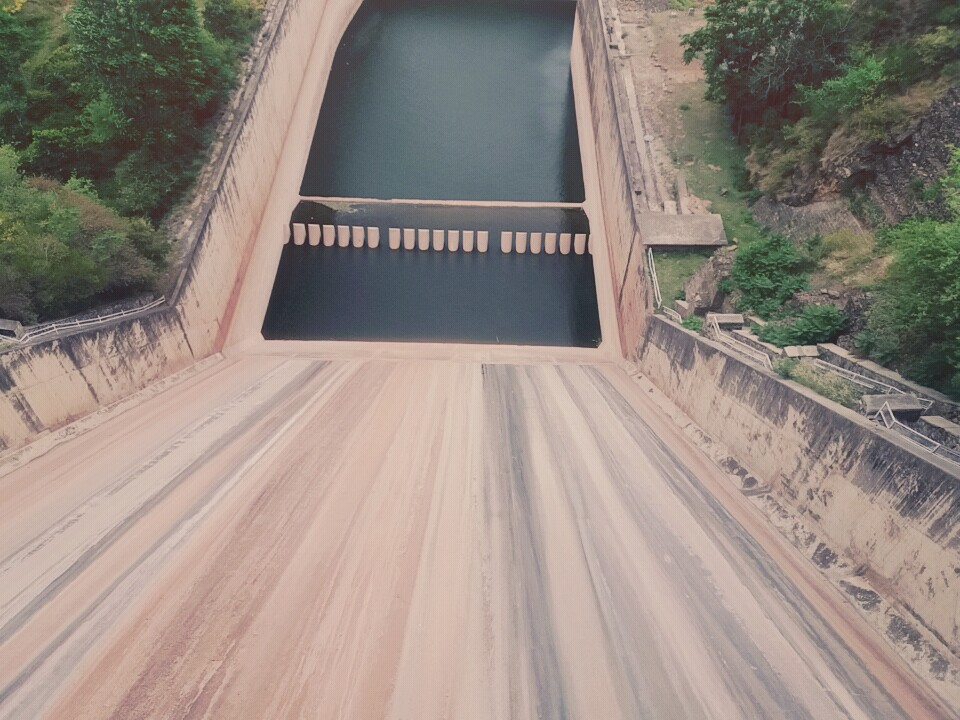 simly dam, islamabad front view